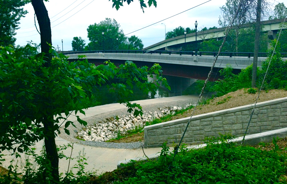 The Paul Ambrose Trail for Health (PATH) going under the 5th Avenue & 31st Street bridges along the Guyandotte River.